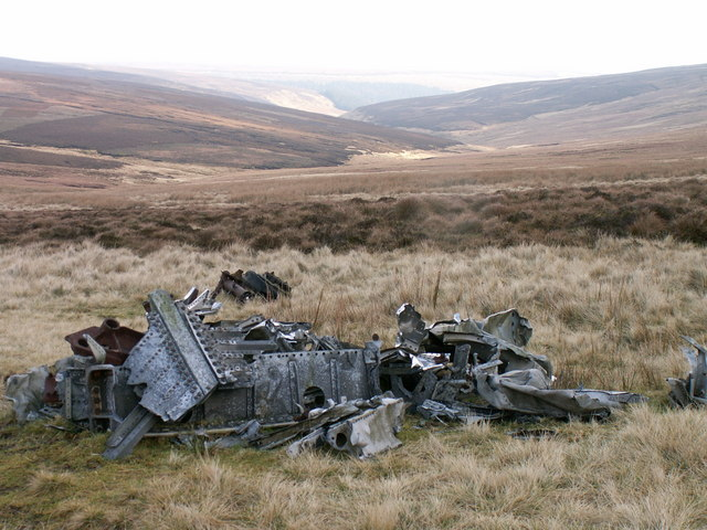 Wreckage of Meteors XD707 and XD730 The two Meteors crashed in mid air on the 22nd July 1954. The wreckage is spread over the hillside and onto the high contours of Kinder. The view is looking east down Ashop clough. They were two Sabres, not Meteors, and it is unclear if they were a controlled flight into steeply rising terrain here, or an air-to-air as a result of a sharp pull-up to avoid it.